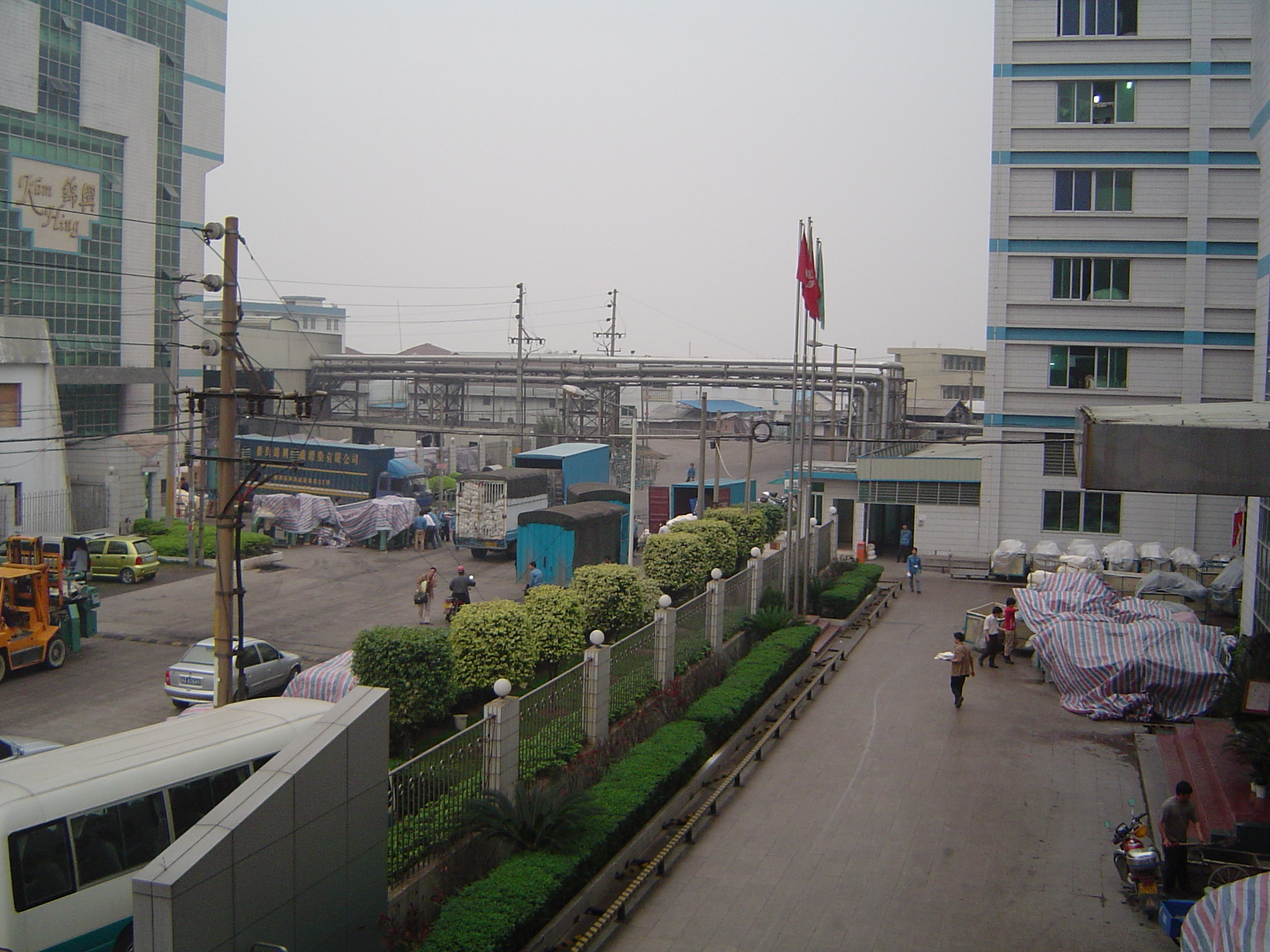 a textile factory near Guangzhou, PR China